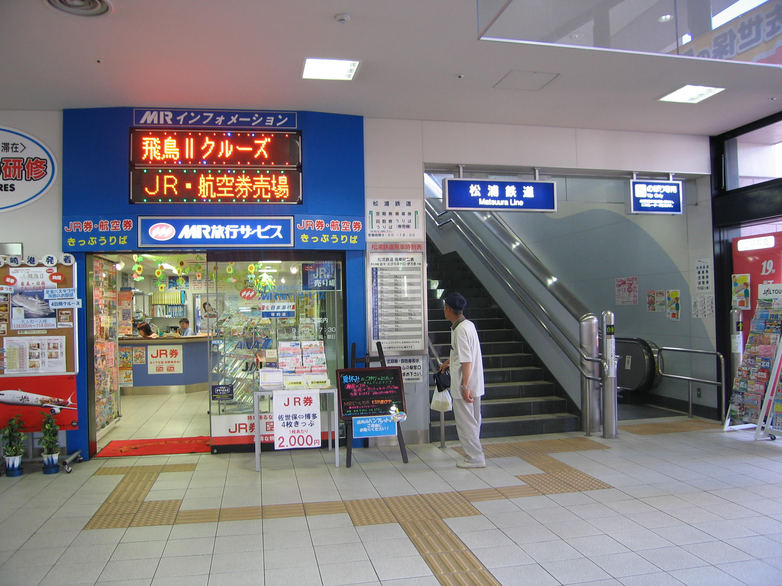 松浦鉄道・佐世保駅 Sasebo Station of Matsuura Railway